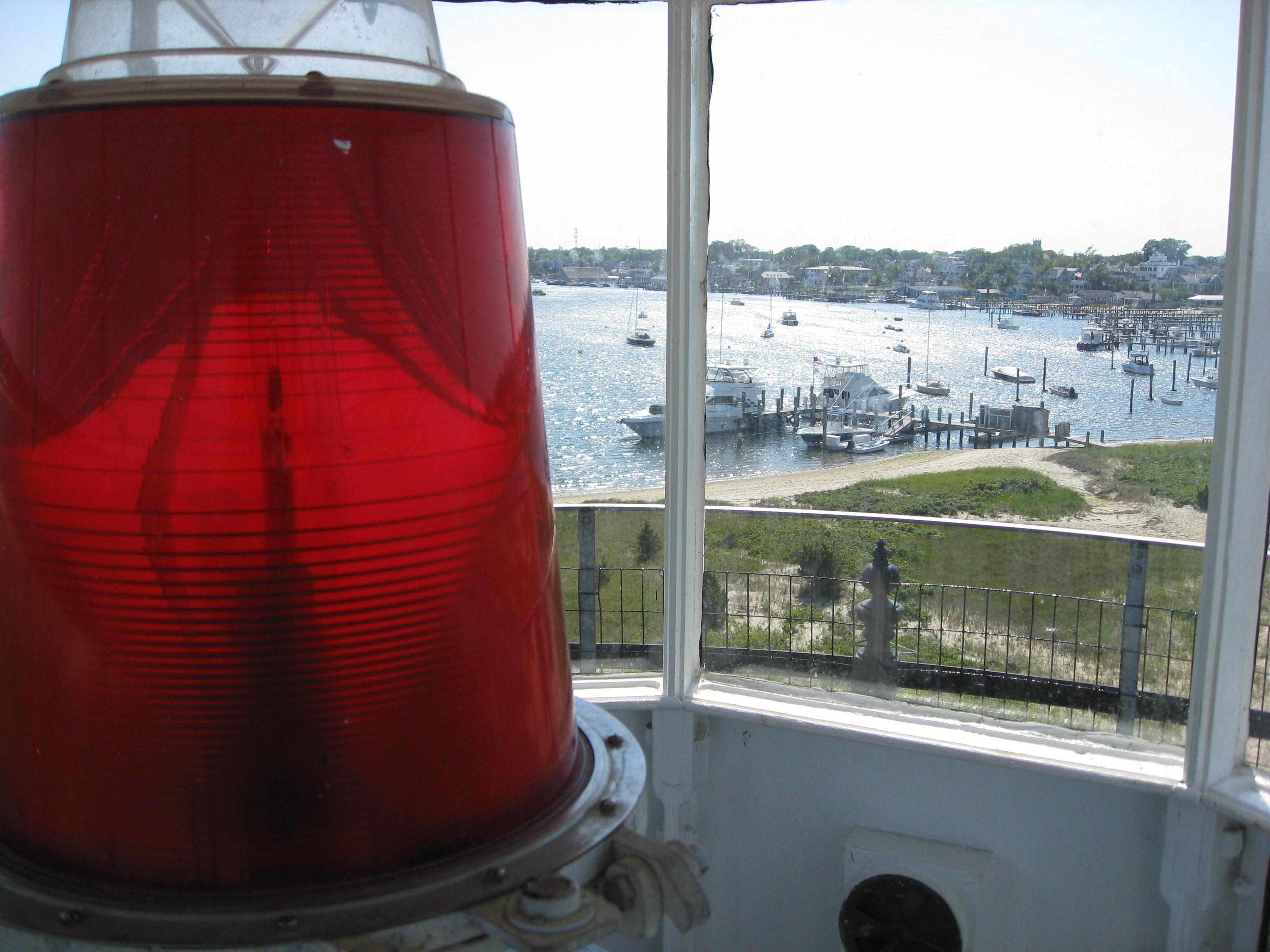 Digital photo taken inside the Edgartown Lighthouse showing lens and Edgartown Harbor in the distance